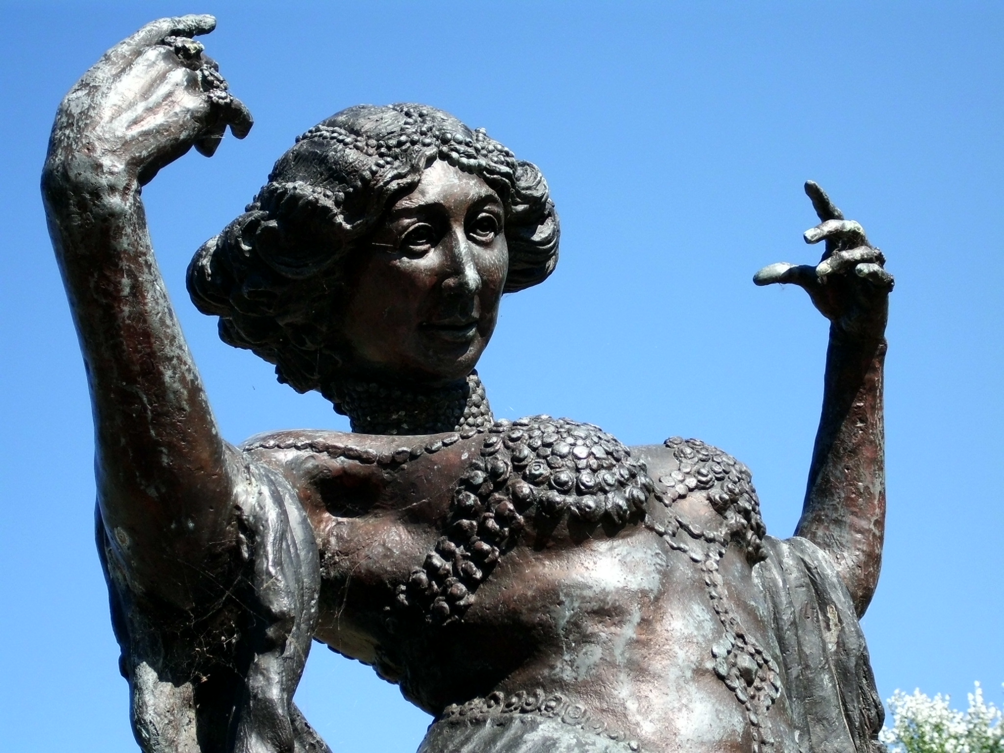 See title.